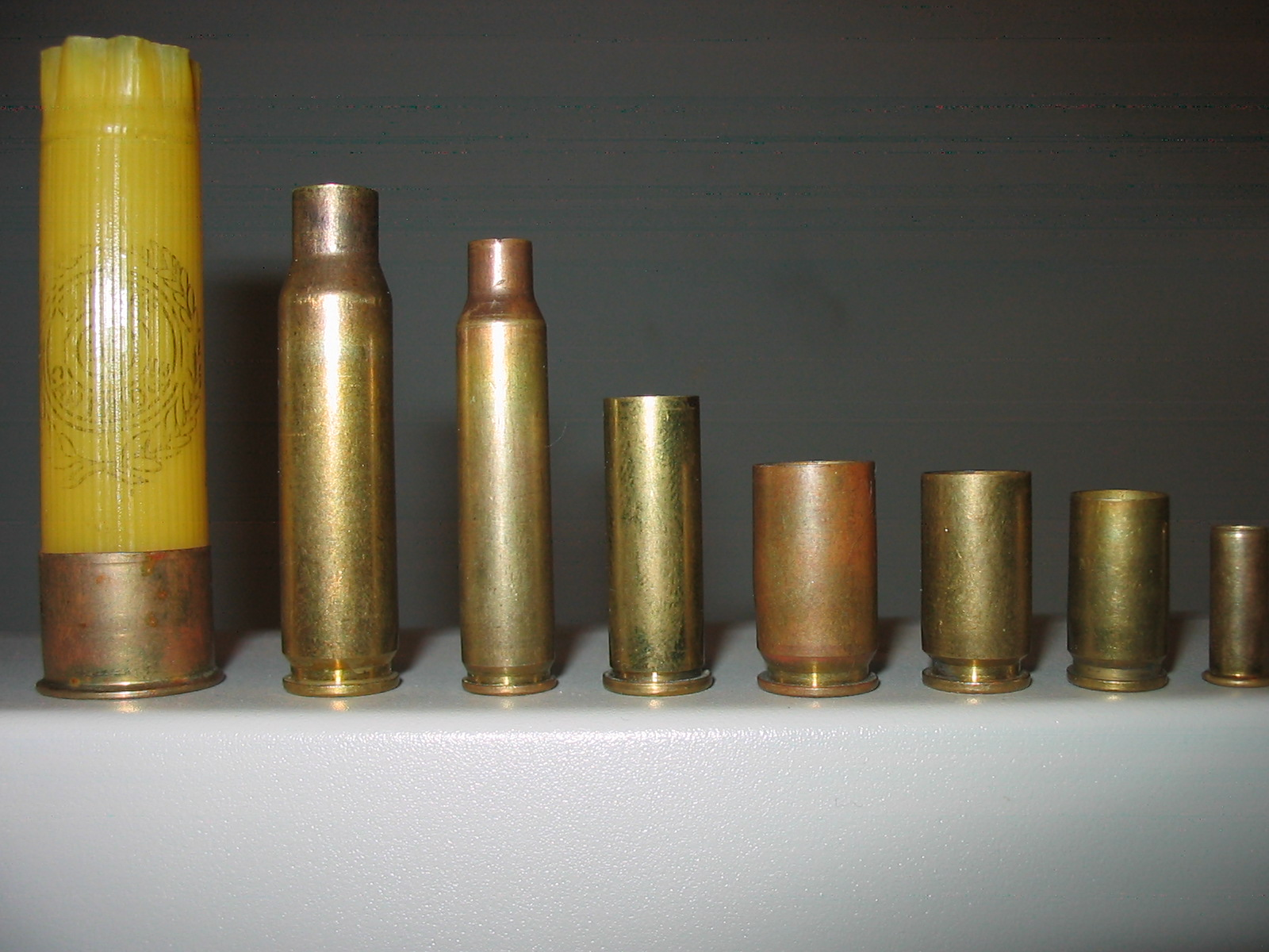 Various casings in common calibers. From left to right: 2-1/2" 20-gauge, 7.62 × 51 mm NATO, 5.56 x 45 mm NATO, .38 Special, .45 ACP, .40 S&W, 9mm Parabellum, .22 Long Rifle.